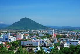 Phú yêntt